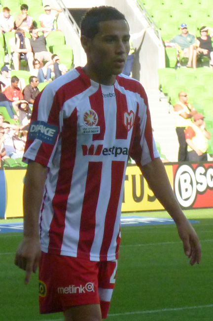 Australian soccer player Adrian Zahra, playing for Melbourne Heart.